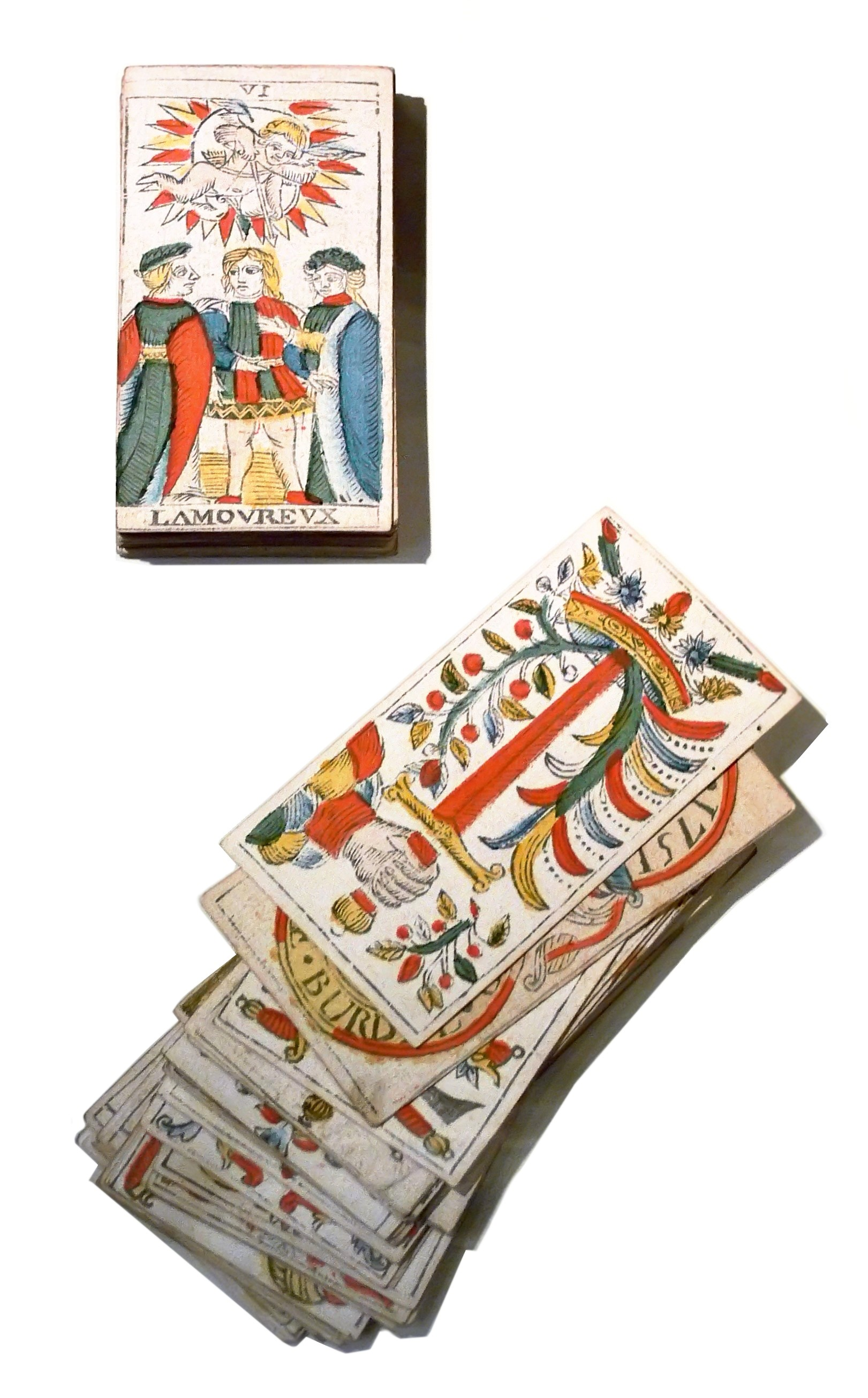 Ravensburg, Museum Humpisquartier, Tarockspiel mit 76 Karten, 1751 Museum Humpis-Quartier Native nameMuseum Humpis-QuartierLocationRavensburg, GermanyCoordinates47° 46′ 50″ N, 9° 36′ 56″ E Established2009Website control : Q1637298 VIAF: 128828875 LCCN: nb2007020847 GND: 4565586-8 WorldCat